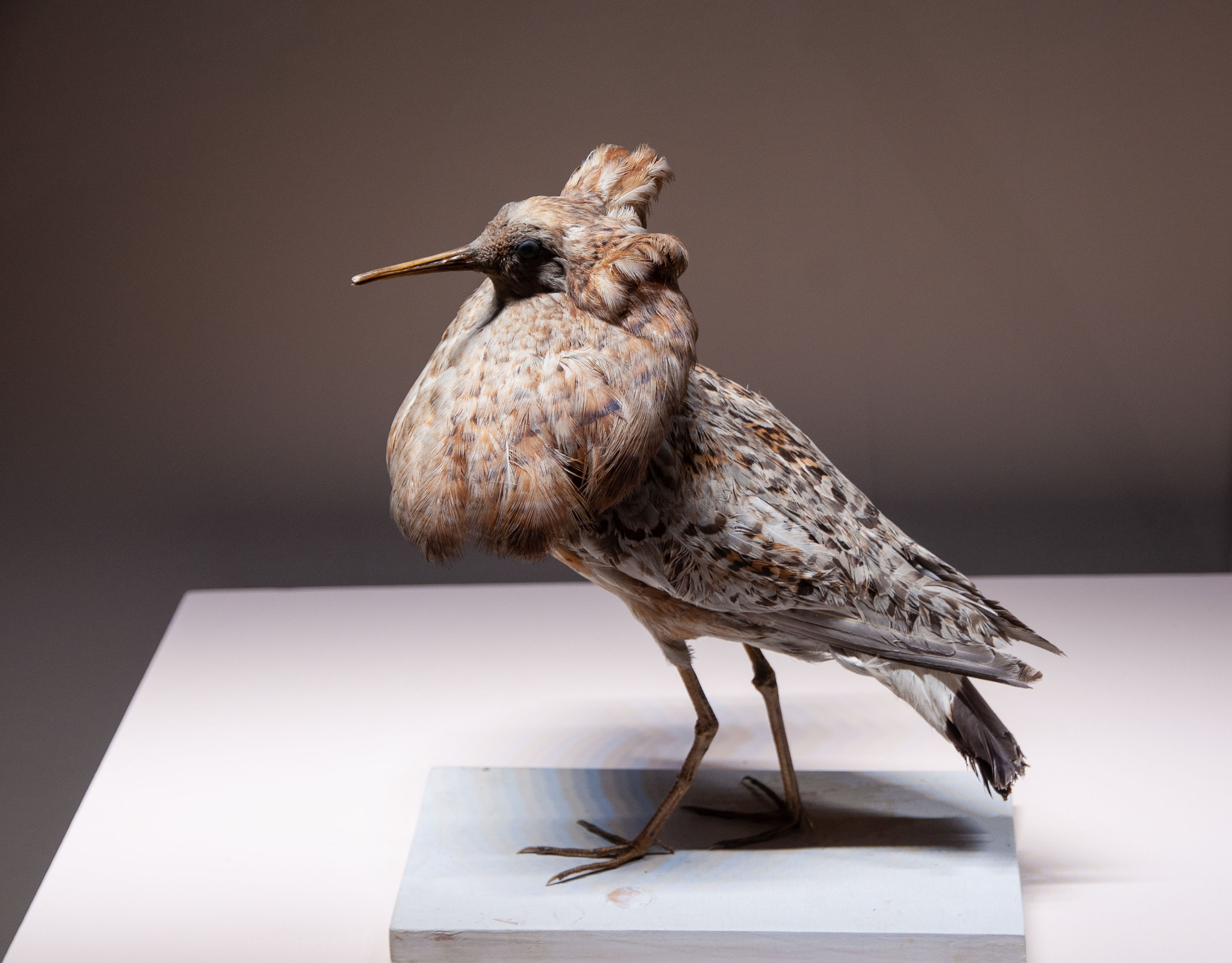 Varied naturalised fighter exhibited in the Whale Room of the Oceanographic Museum of Monaco.